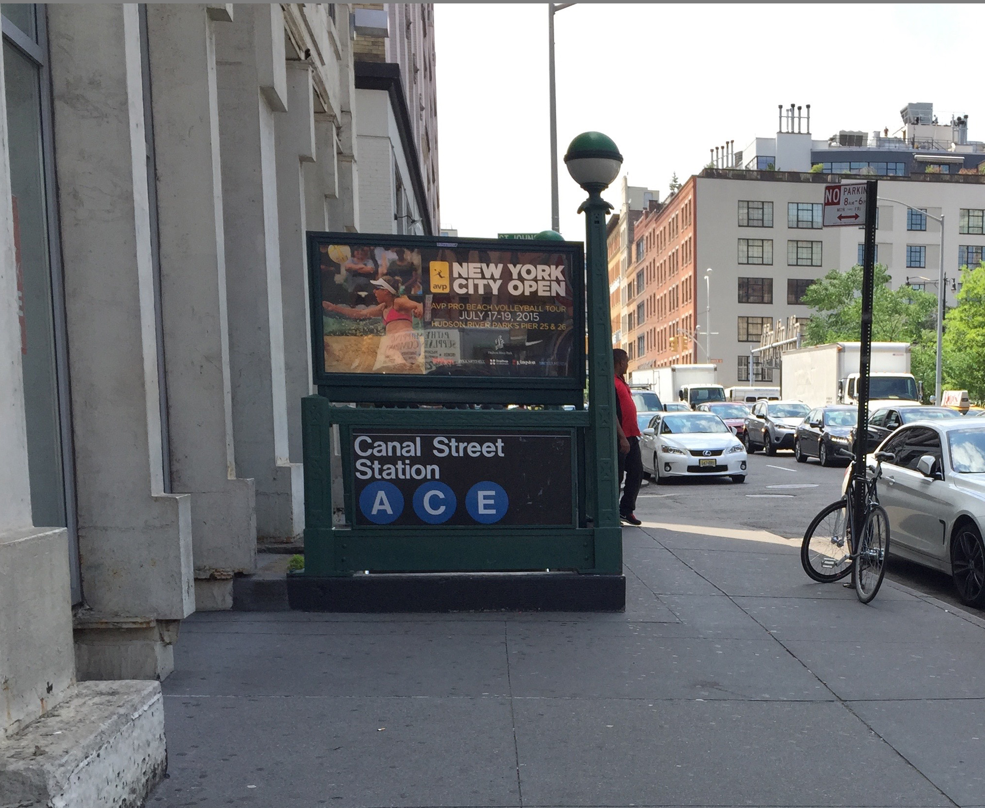 Entrance at Laight Street and 6th Avenue to the Canal Street A/C/E station.